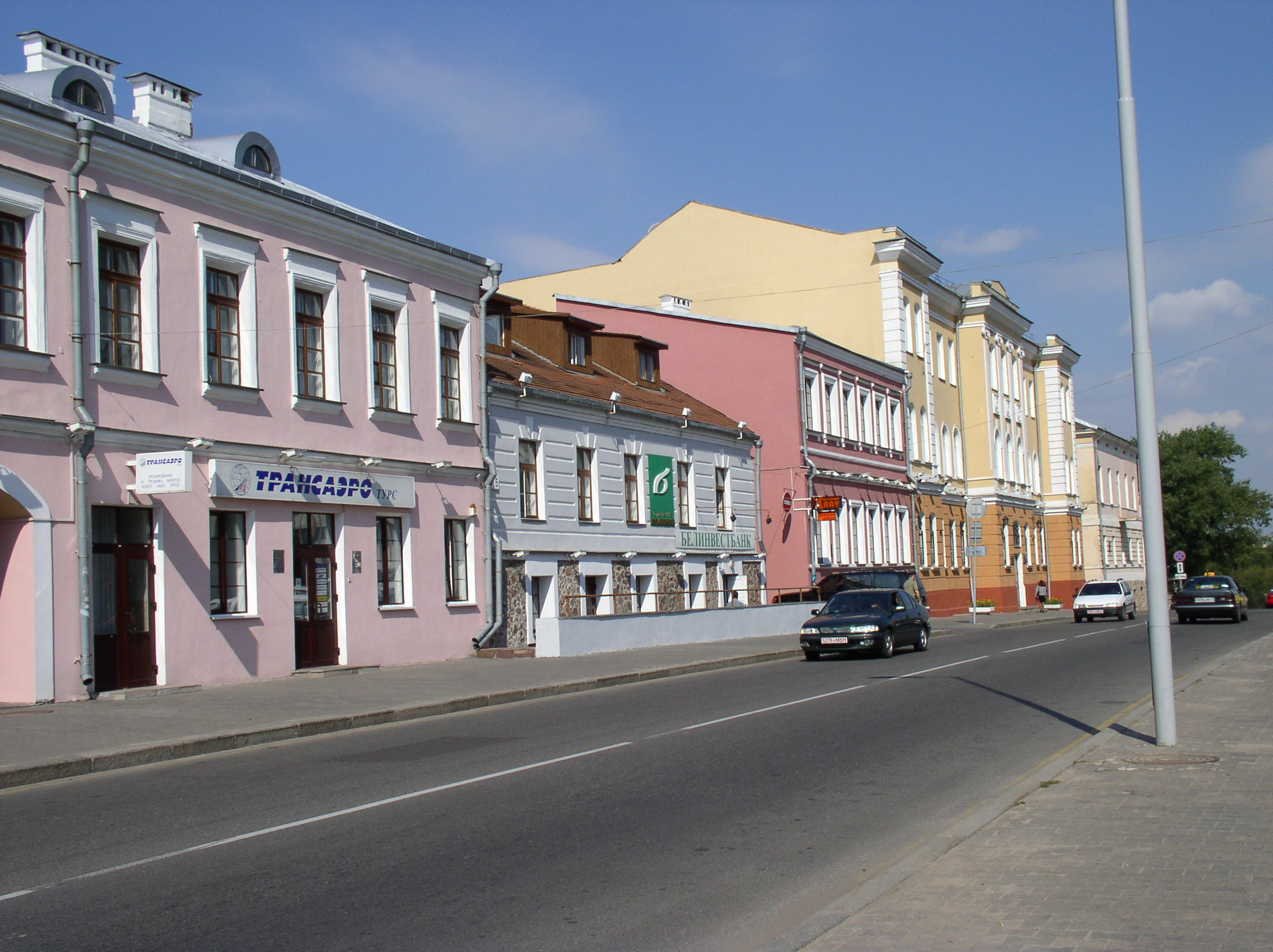 International street, 23 - 31. Minsk, Belarus.